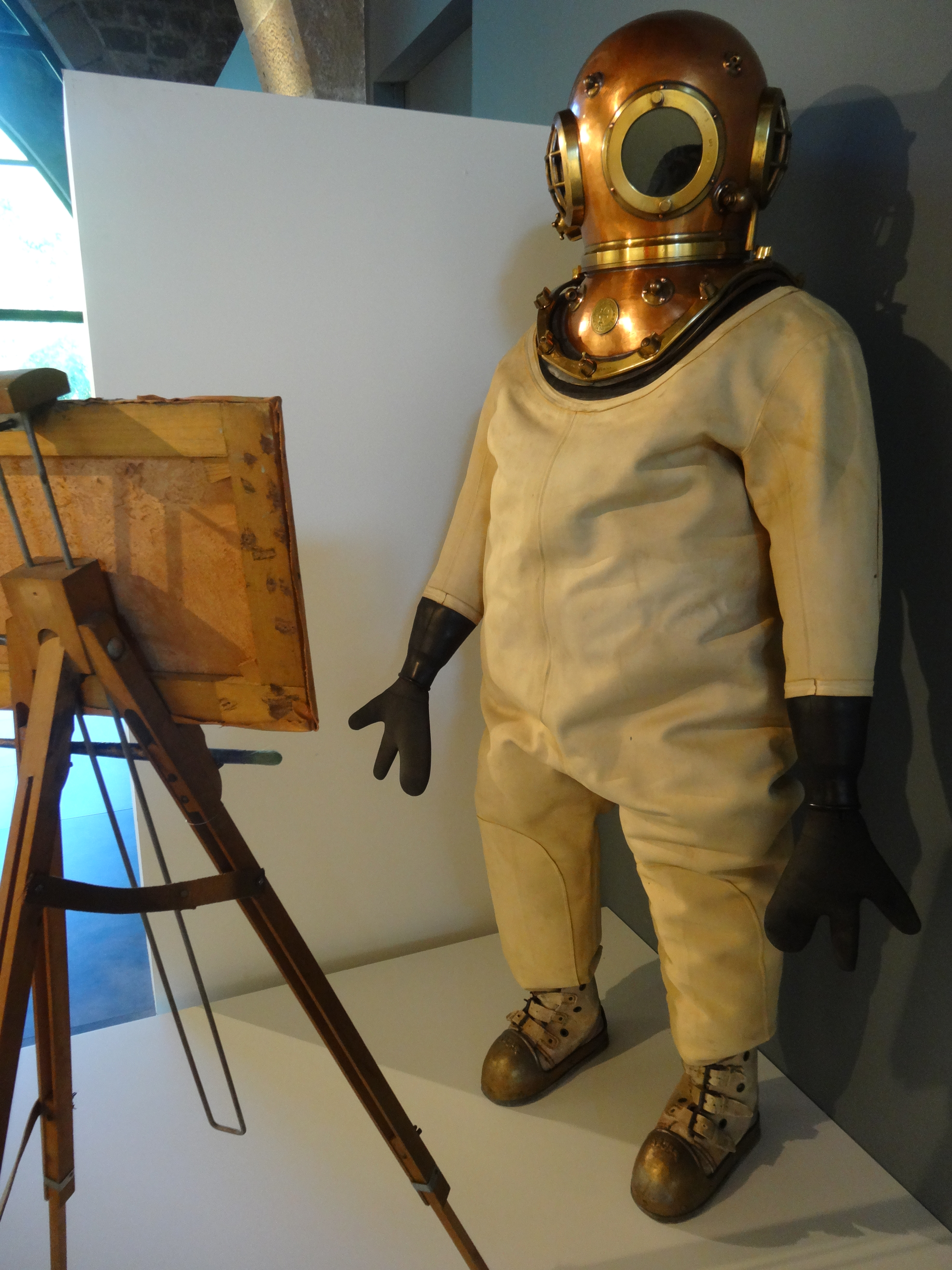 Museu Maritim, Barcelona, July 2016. Classic diving suit of the 19th century, similar to that used by Zahr Pritchard to paint underwater